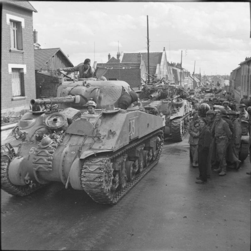 The British Army in North-west Europe 1944-45 Sherman tanks of Guards Armoured Division passing through Villers-Bretonneux, 1 September 1944.